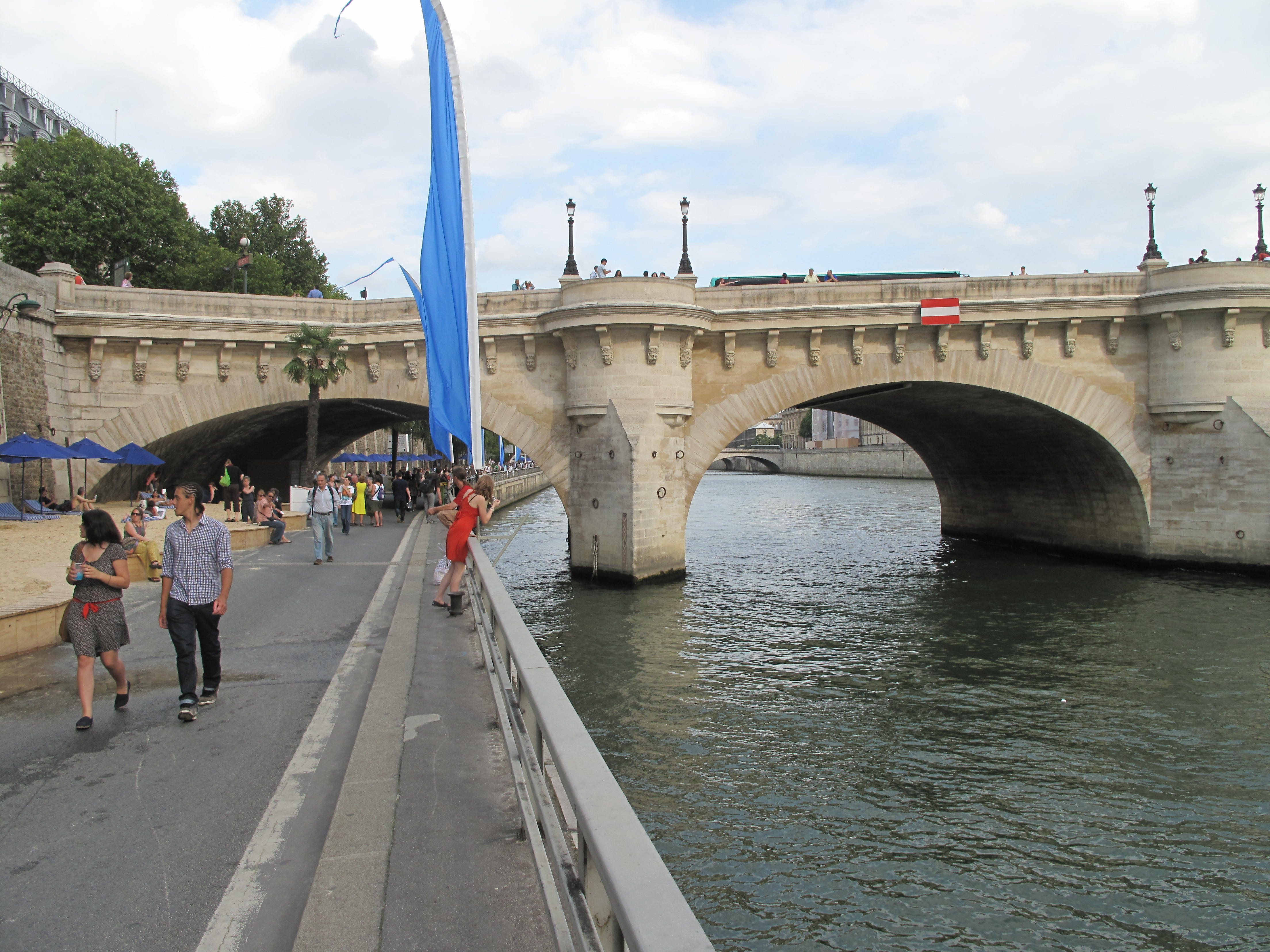 The Pont-Neuf during Paris Plages 2011.